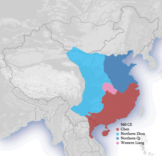 Drawn after "The Divisions of China, 535-560 A.D." Albert Herrmann (1935) History and Commercial Atlas of China. Harvard Press.